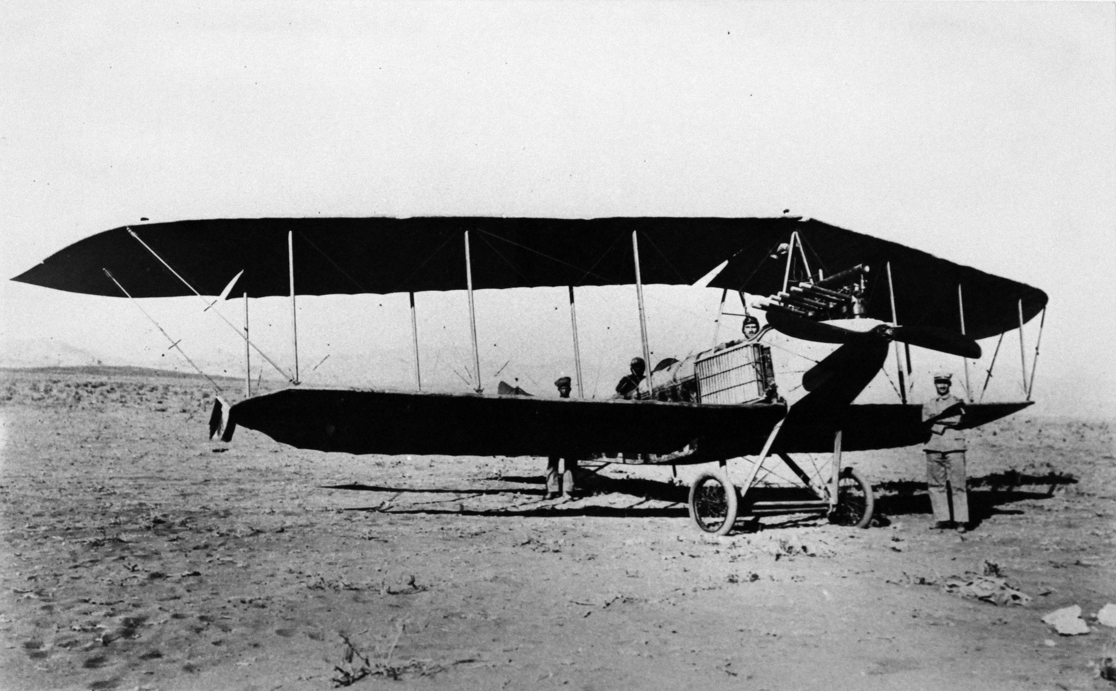 One of the two airplanes ("Roland") used during WW1 by the Schutztruppe for reconnaissance, 1914-1915